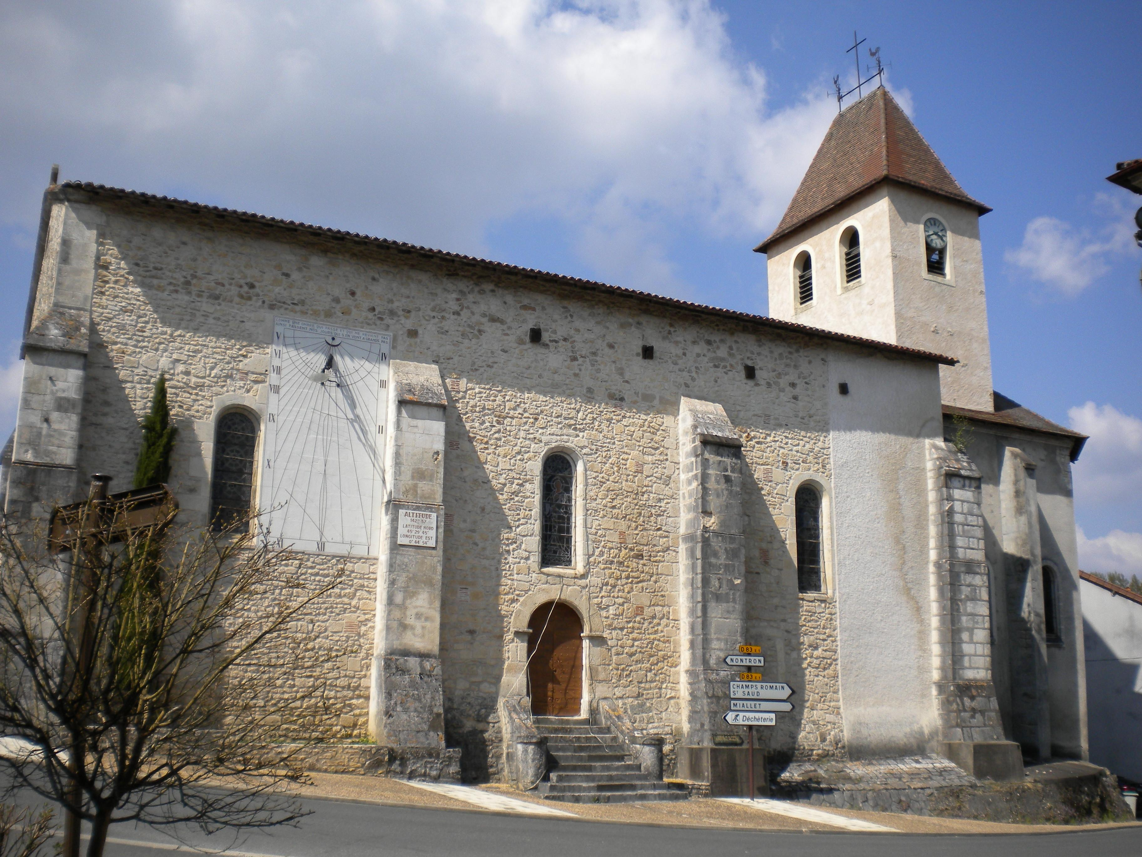 The 17th century church of Saint-Pardoux-la-Rivière, Dordogne, France. Shown is the south face with the sun dial.